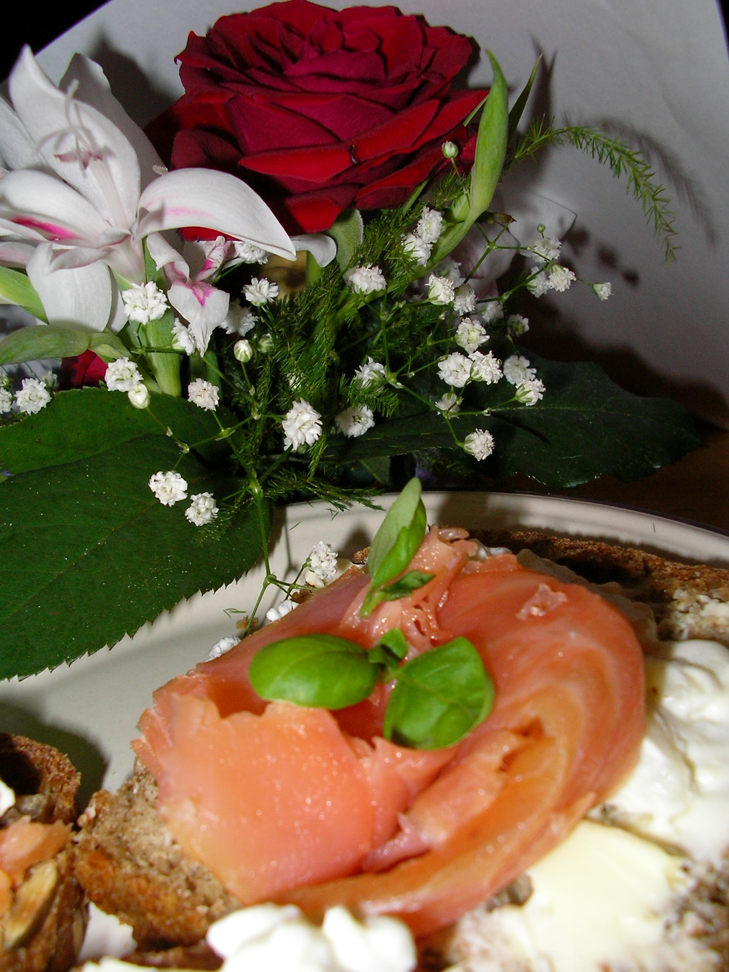 picture of smoked salmon Bilde av røkt laks author, Tomas Aarmo, fotograf Tomas Aarmo